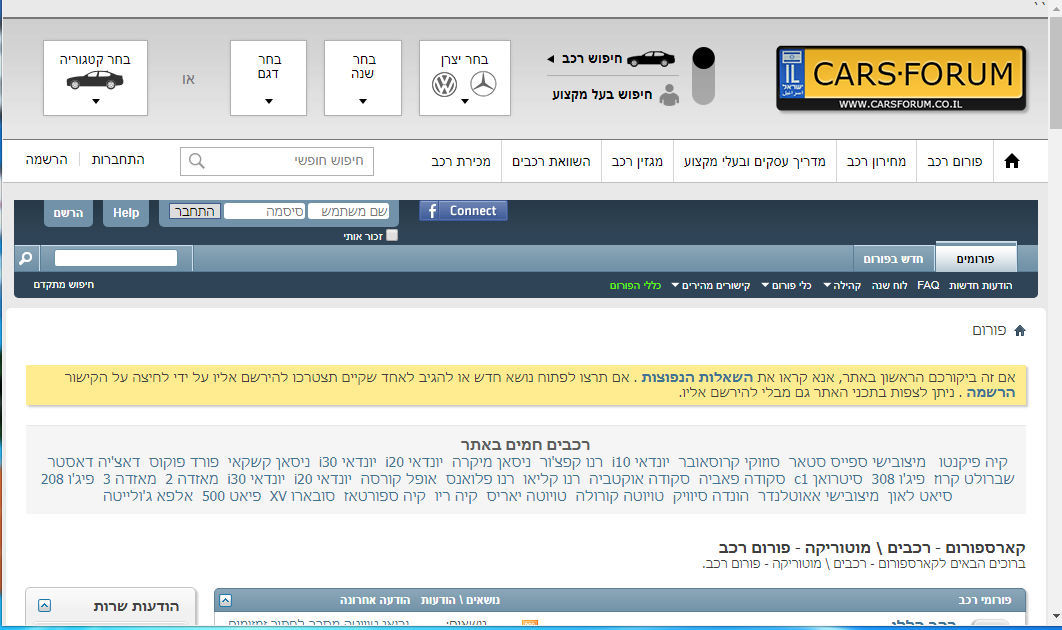 A homepag's screenshot